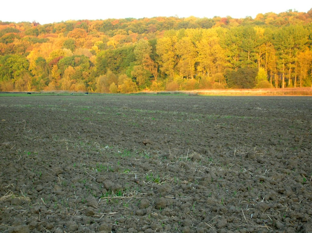 Nature reserve Las Mariański